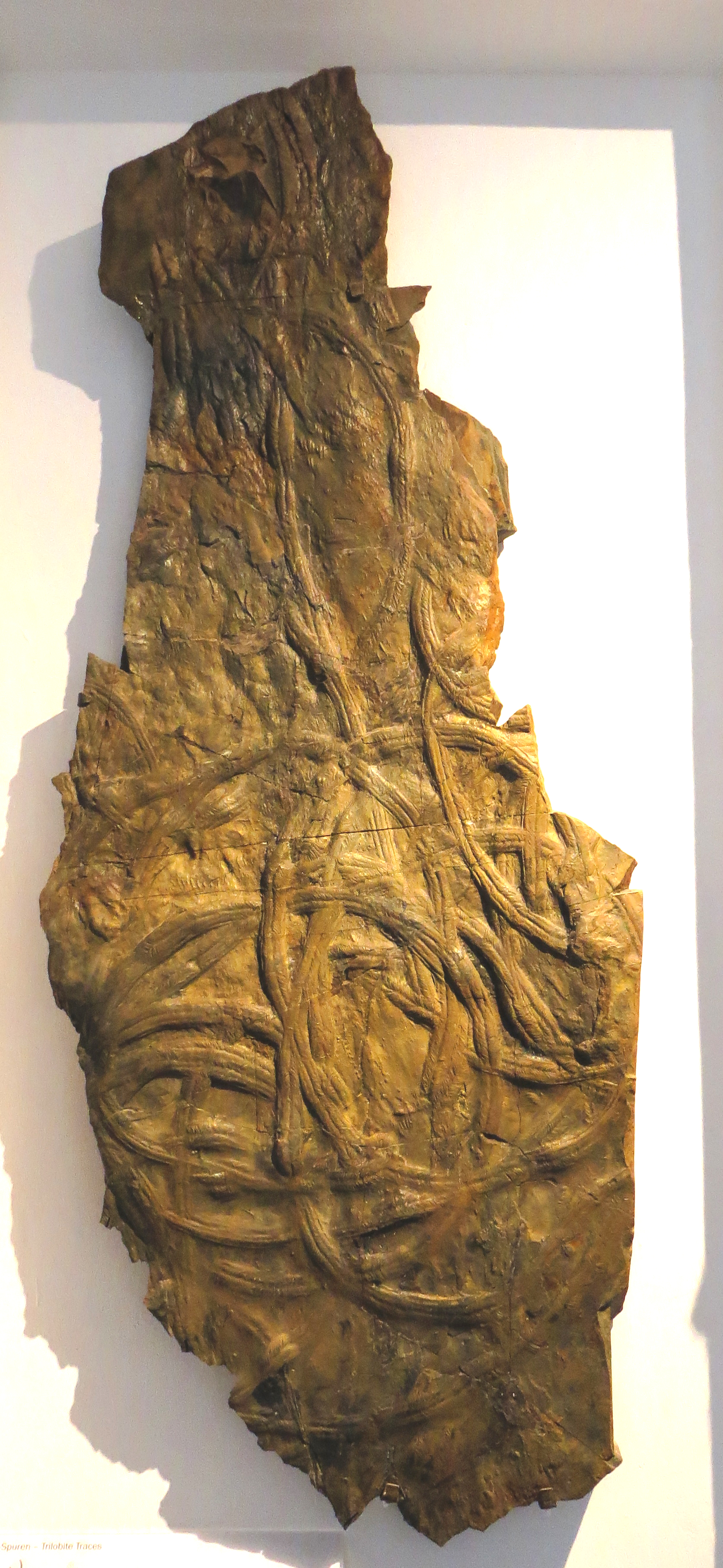 Lower surface of sandstone slab with “loops” of Cruziana semiplicata from the Upper Cambrian Najerilla Formation of the Sierra de la Demanda, Iberian Ranges, North-Central Spain. The width of the slab is about 75 cm. Paleontological Collections of the Museum of the Tübingen University, Germany.